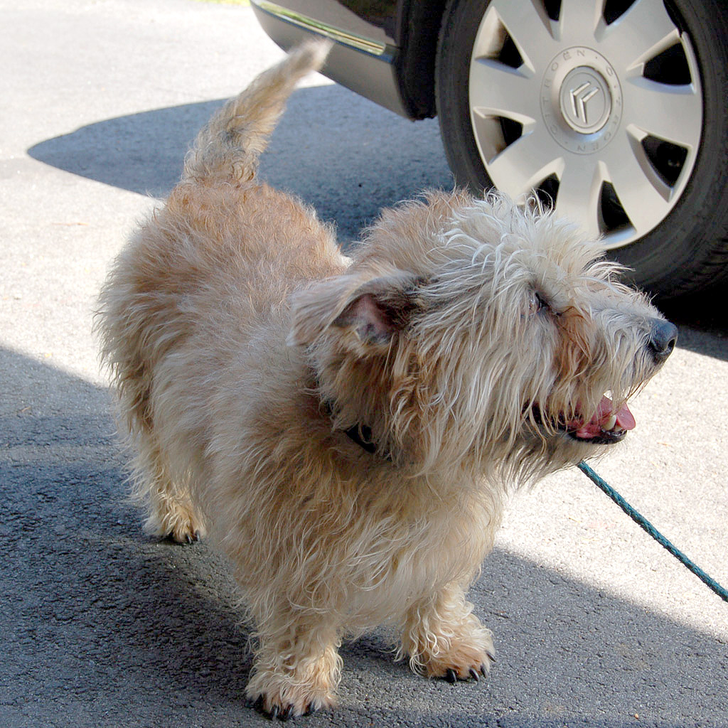 adult Glen of Imaal Terrier